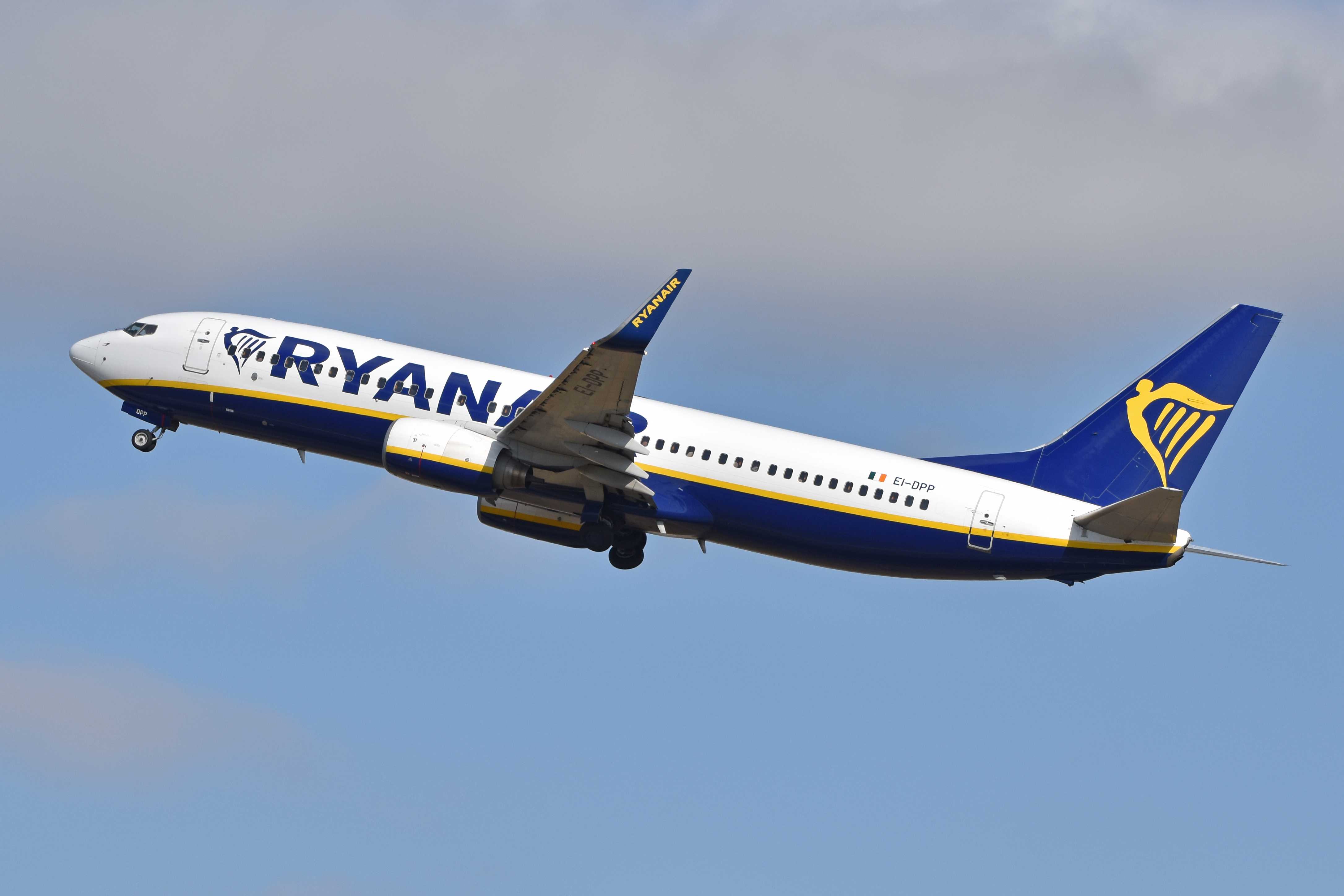 c/n 33613, l/n 2213. Built 2007. Seen departing on flight FR908 / RYR68XB to Cork. London Stansted, Essex, UK. 10th July 2018